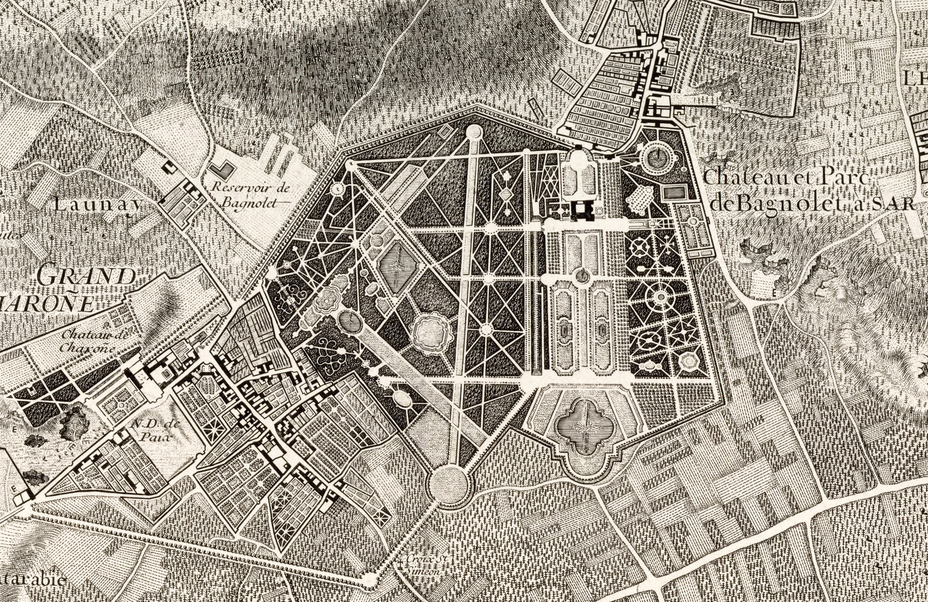 Château de Bagnolet on the map of Paris by Roussel.